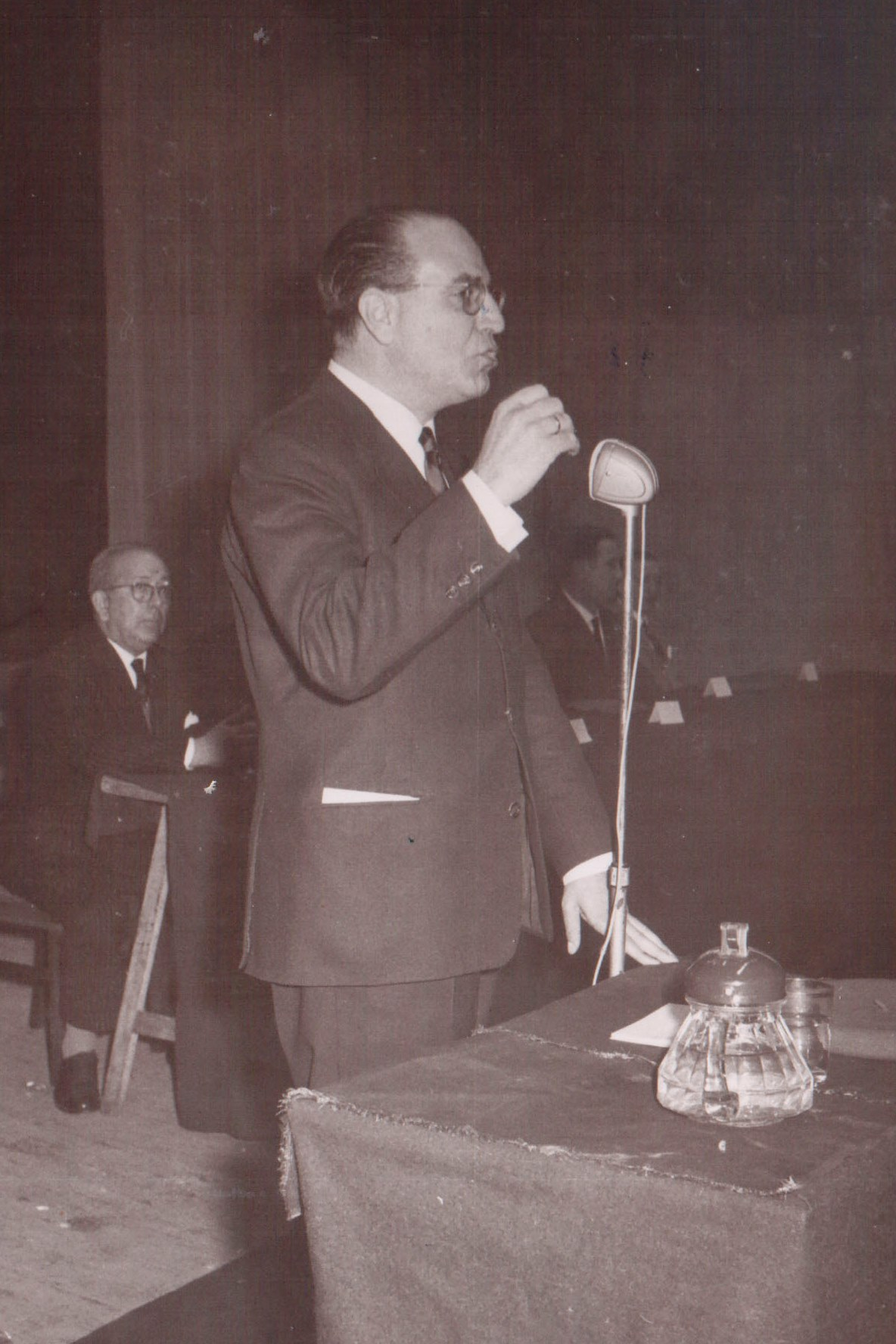 October 25, 1964. Bilbao, "Buenos Aires" Theatre. A moment of José Ángel Zubiaur Alegre speaking on "Carlism and the Fueros". Photo from JAZA, the private archive of José Ángel Zubiaur Alegre